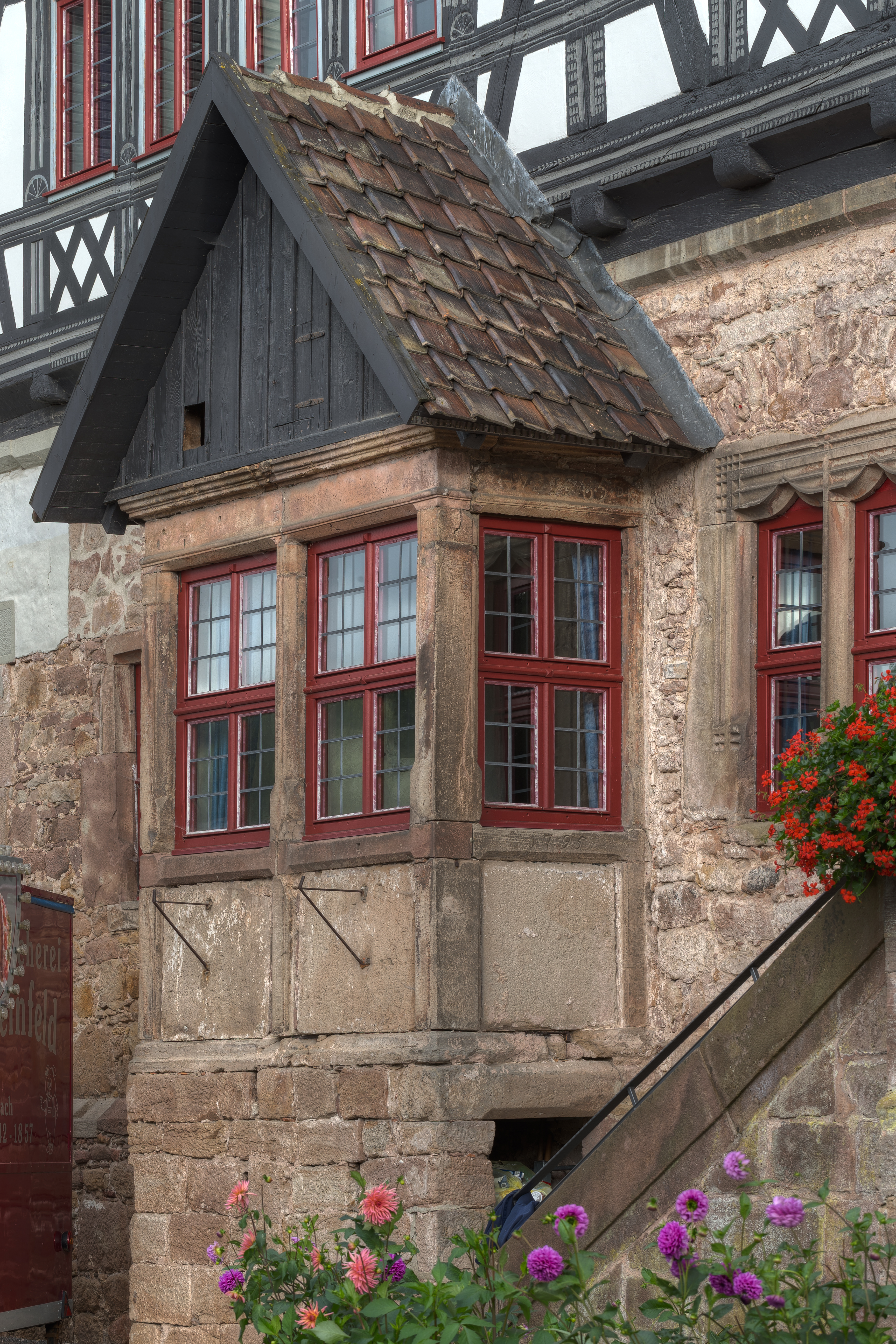 Auslucht mit Satteldach an der Nordwestseite von Schloss Ermschwerd.